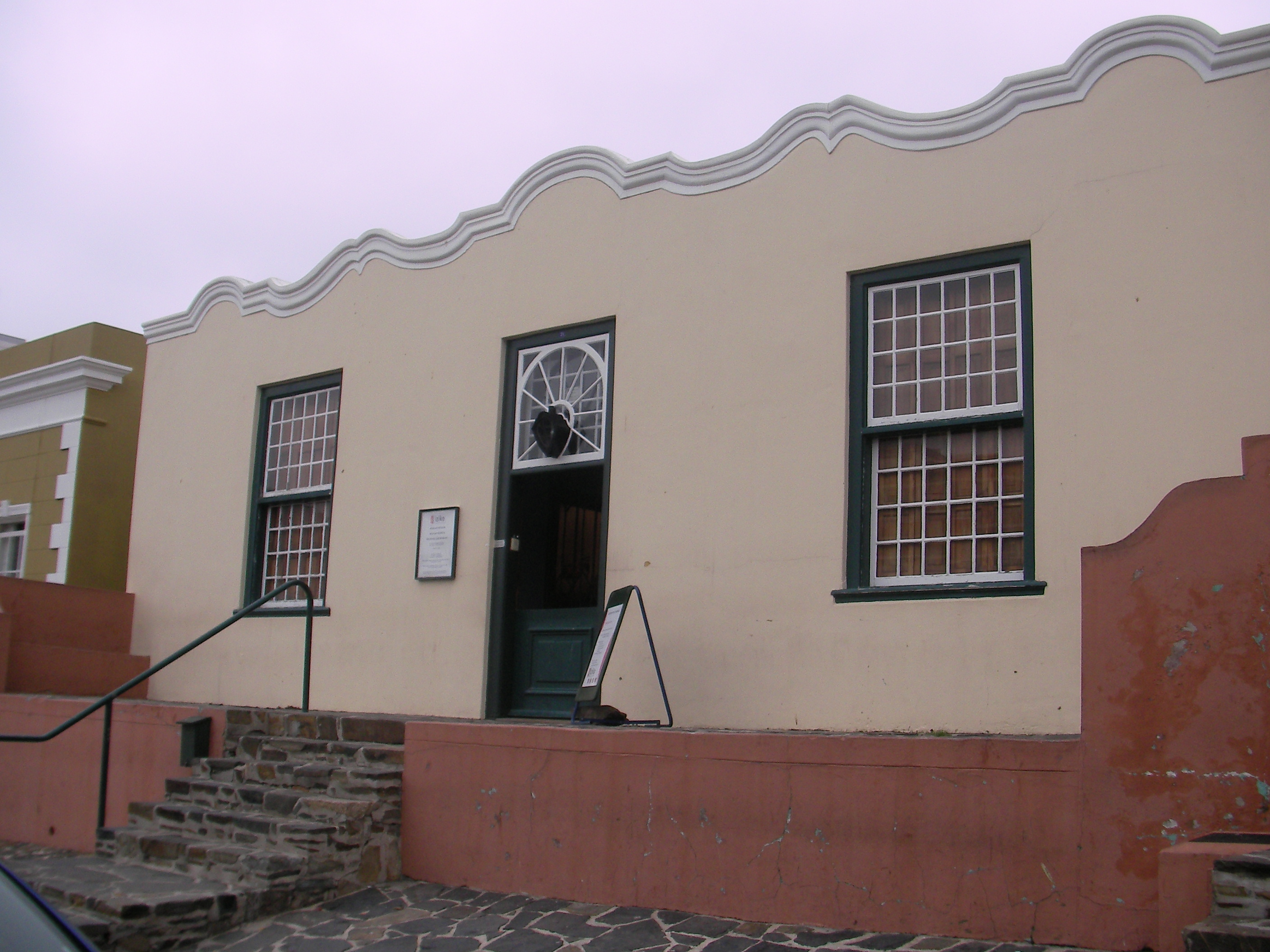 old house in cape town (propobably the Bo-Kaap museum)